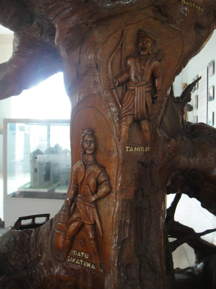 Sikatuna and Tamblot carvings, Bohol